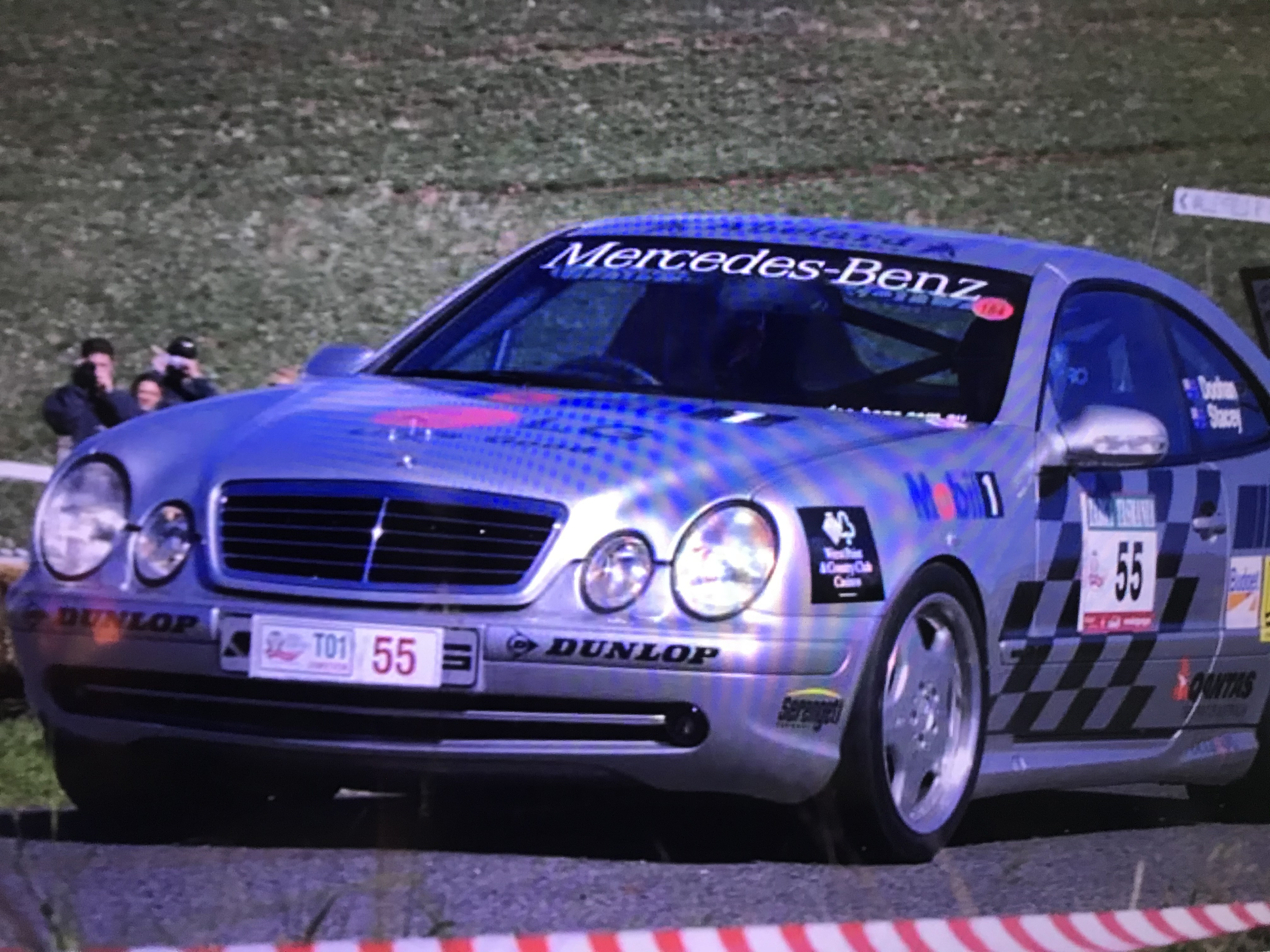 Mercedes-Benz CLK55 AMG Works Tarmac Rally Car WDB2083742F171594